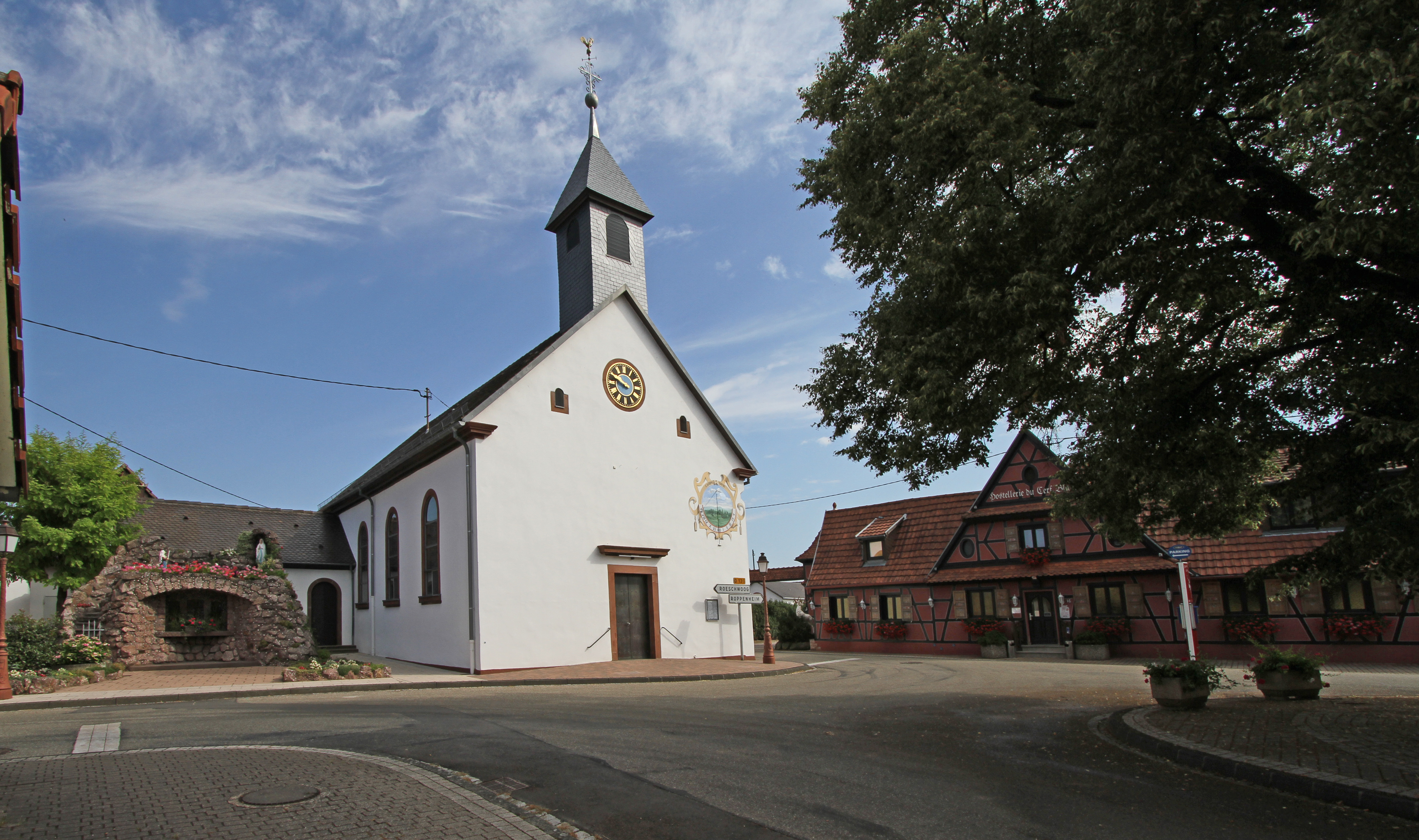 Church of Saint Luke in Neuhaeusel.